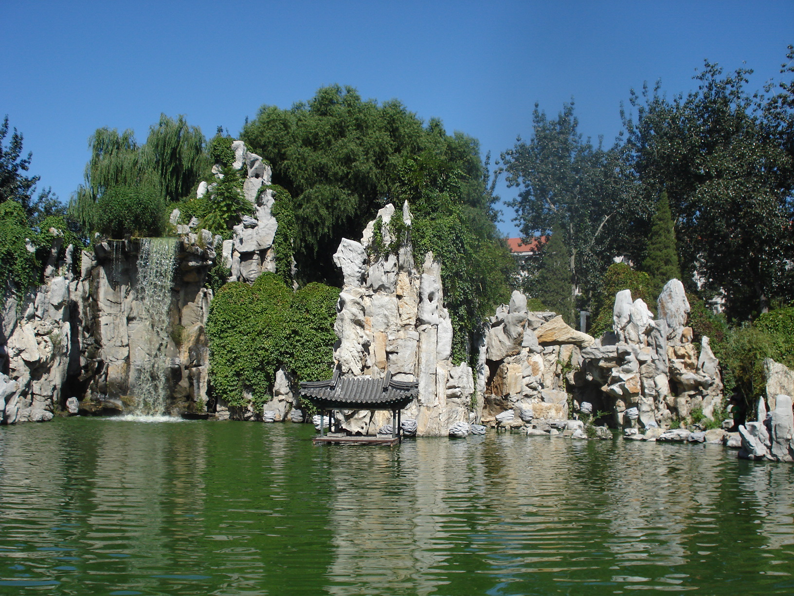 The Longtan Park in Beijing